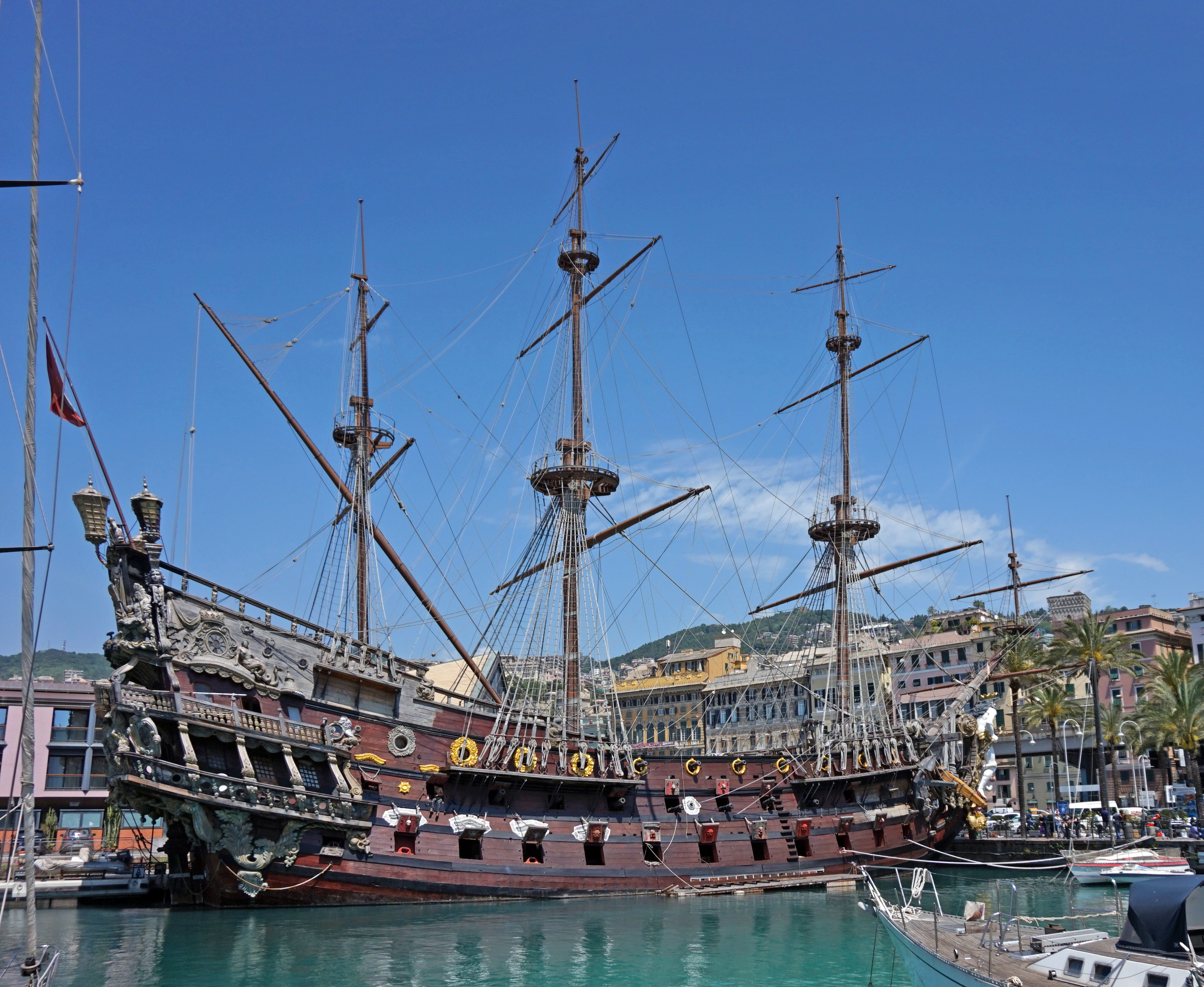 Il Galeone Neptune in Genoa. This photograph was taken with a Sony Alpha a5000.